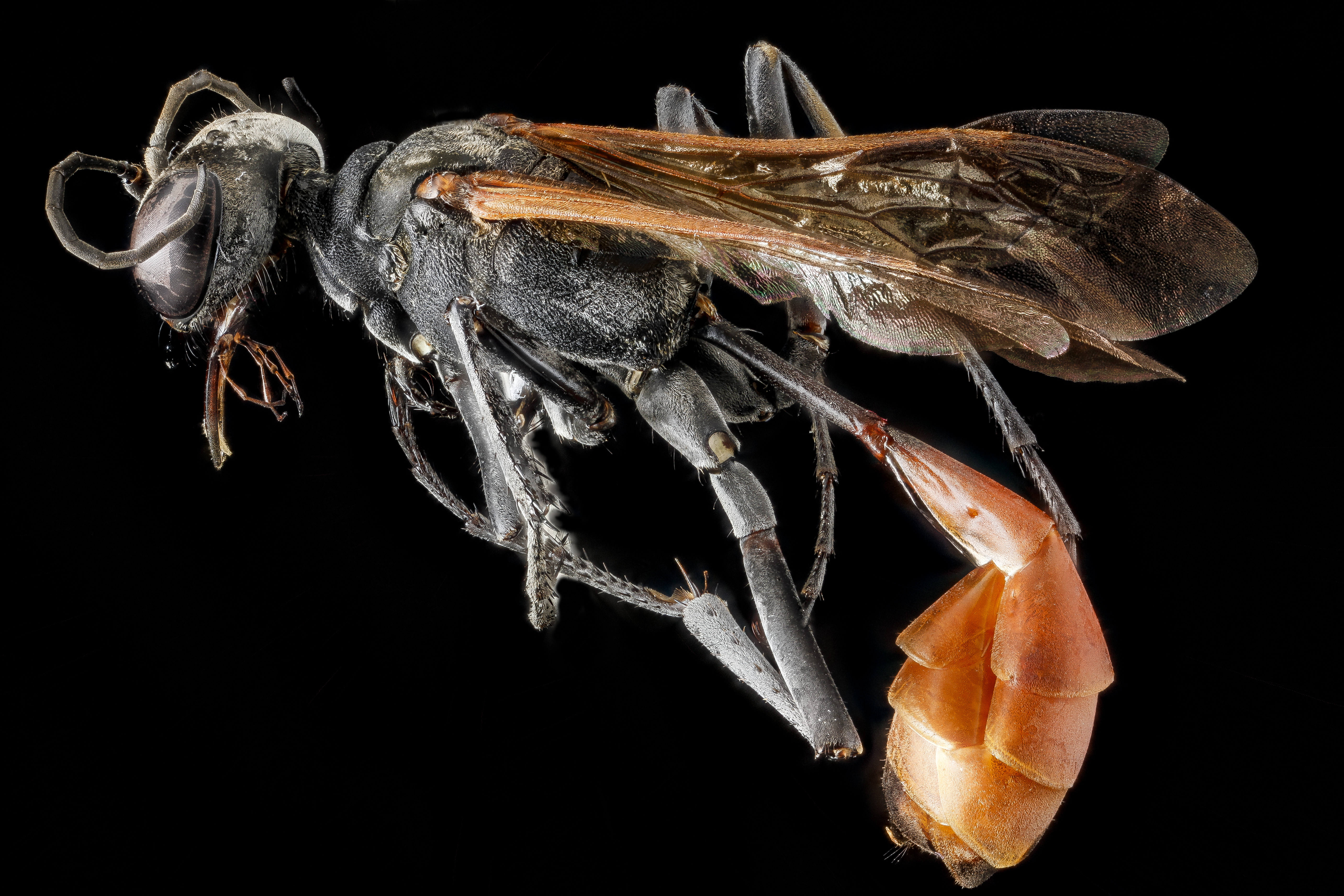 Ammophila apicalis, Cuba, GTMO, A thread-waisted Wasp, hunter of caterpillars